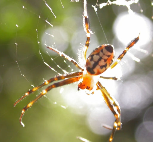 Spider from Wayanad. Leucauge cf. tessellata (Thorell, 1887) ID Determiner Manju Siliwal, manjusiliwal @